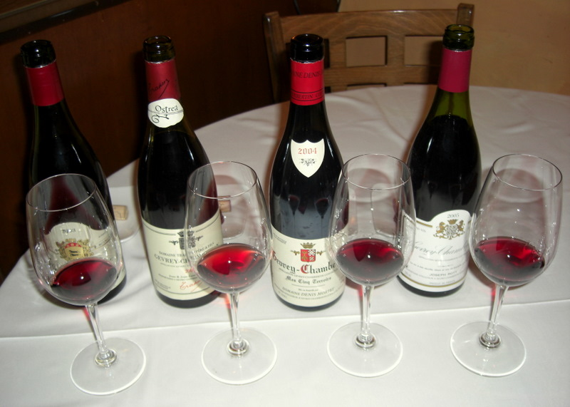 From author:Tast de Gevrey Chambertin: 22/11/2008 1.- Hubert Lignier Gevrey-Chambertin 2003 2.- Jean Trapet Pere&Fils "Ostrea" Gevrey-Chambertin 2004 3.- Joseph Roty Gevrey-Chambertin 2005 4.- Denis Mortet "Mes Cinq Terroirs" Gevrey-Chambertin 2004 French wines made from Pinot noir grown in the Cote de Nuits region of Burgundy.